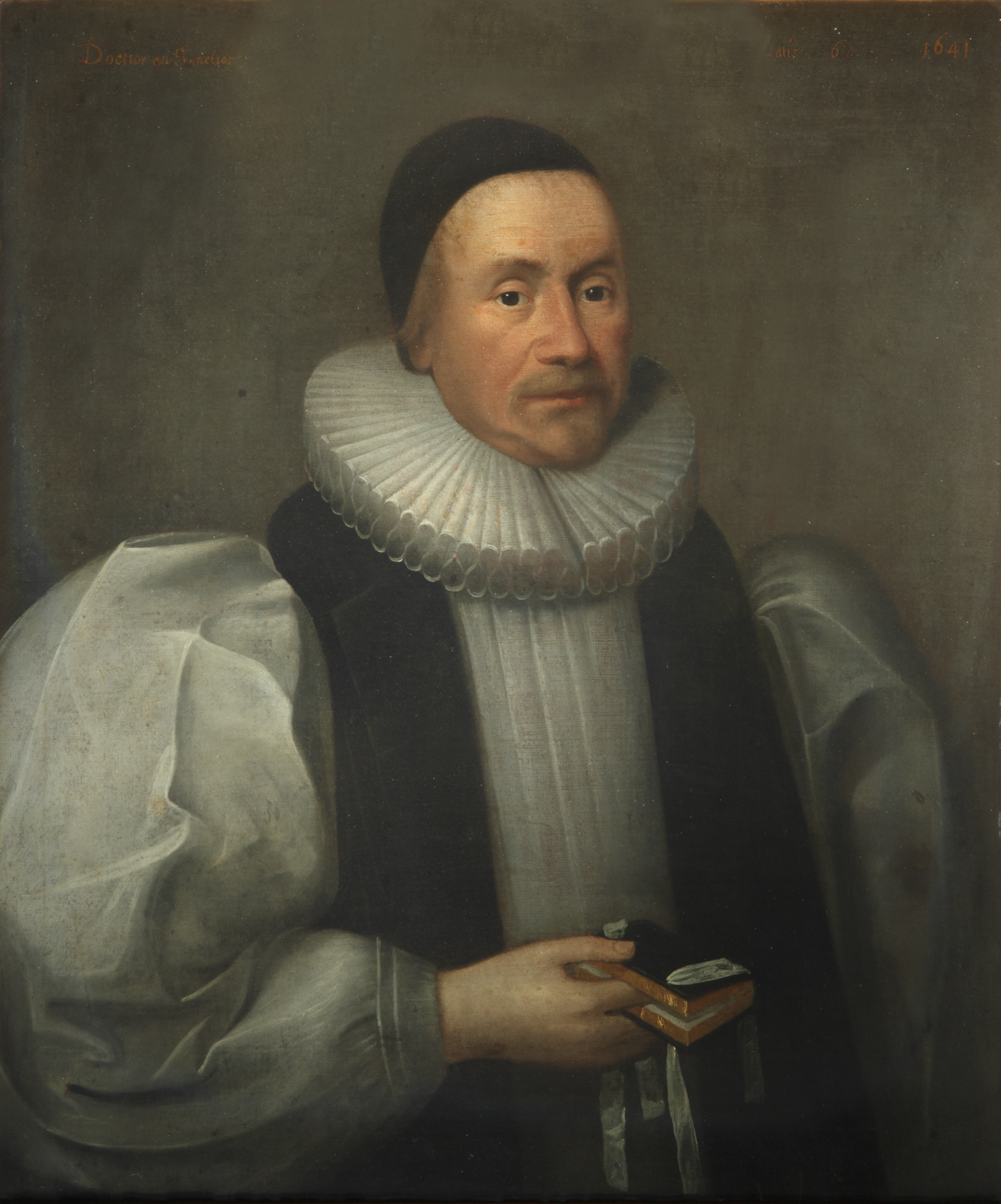 Portrait of James Ussher